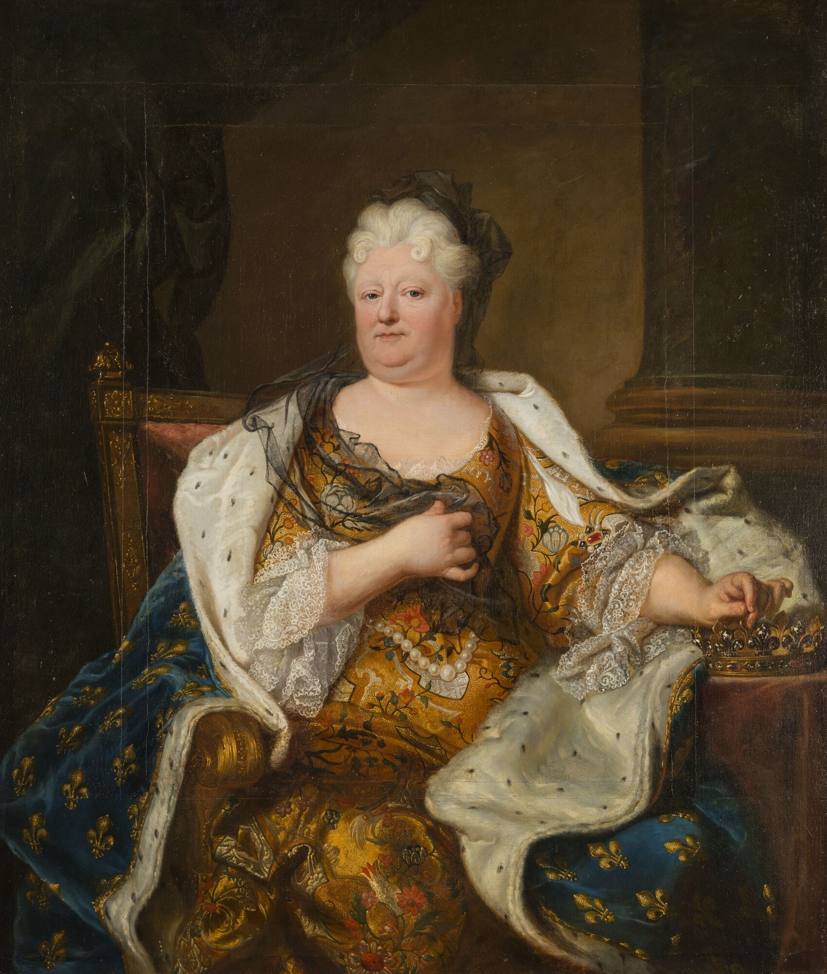 The Duchess wears the black vap and veil of a widow (her husband died in 1701).